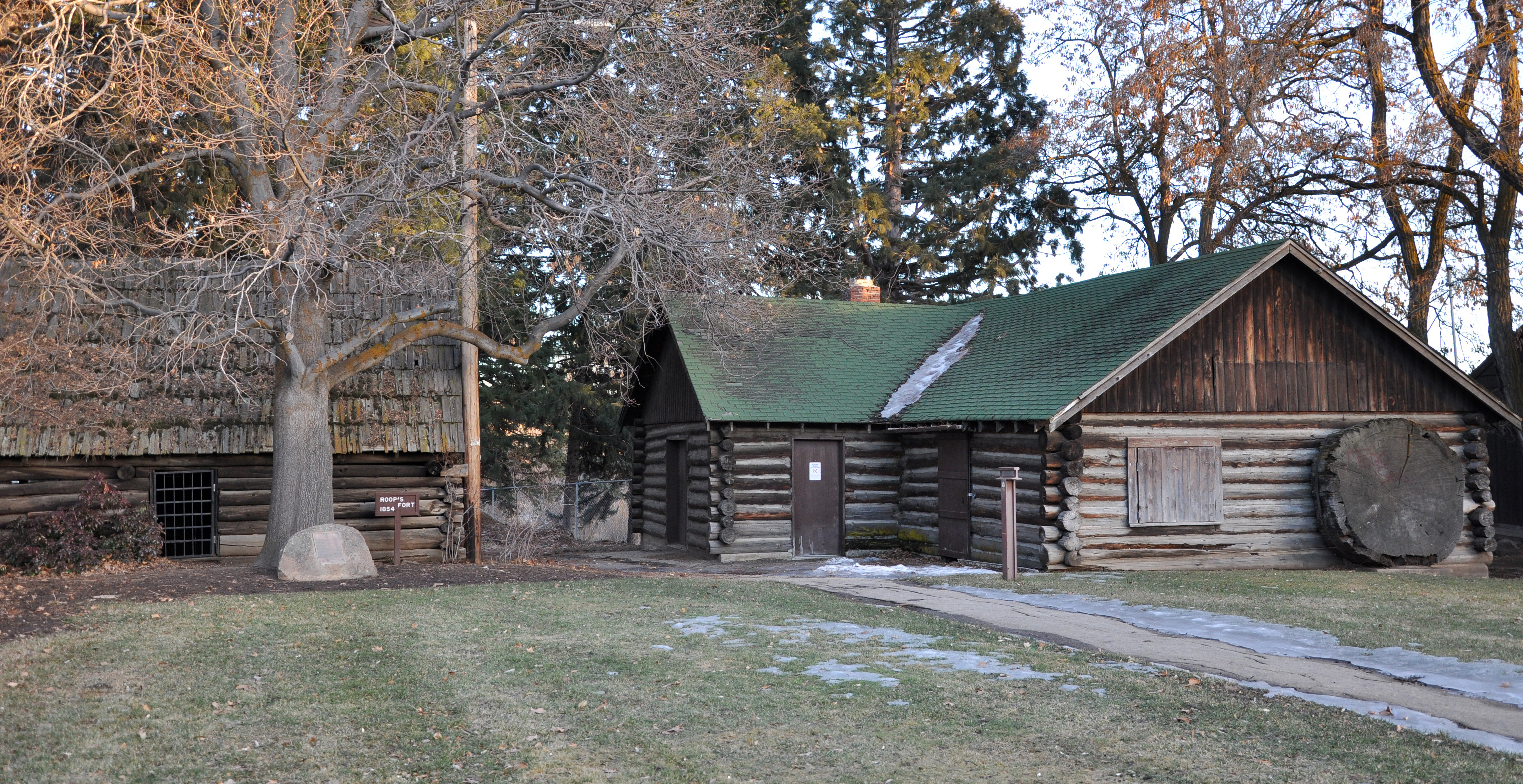 Roop's Fort in Susanville in the U.S. state of California